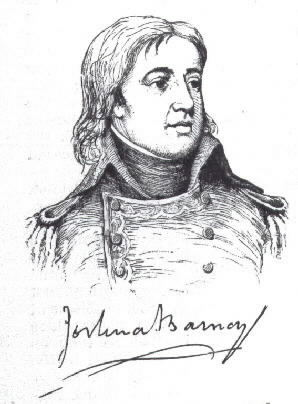 Sketch of Joshua Barney circa 1800.